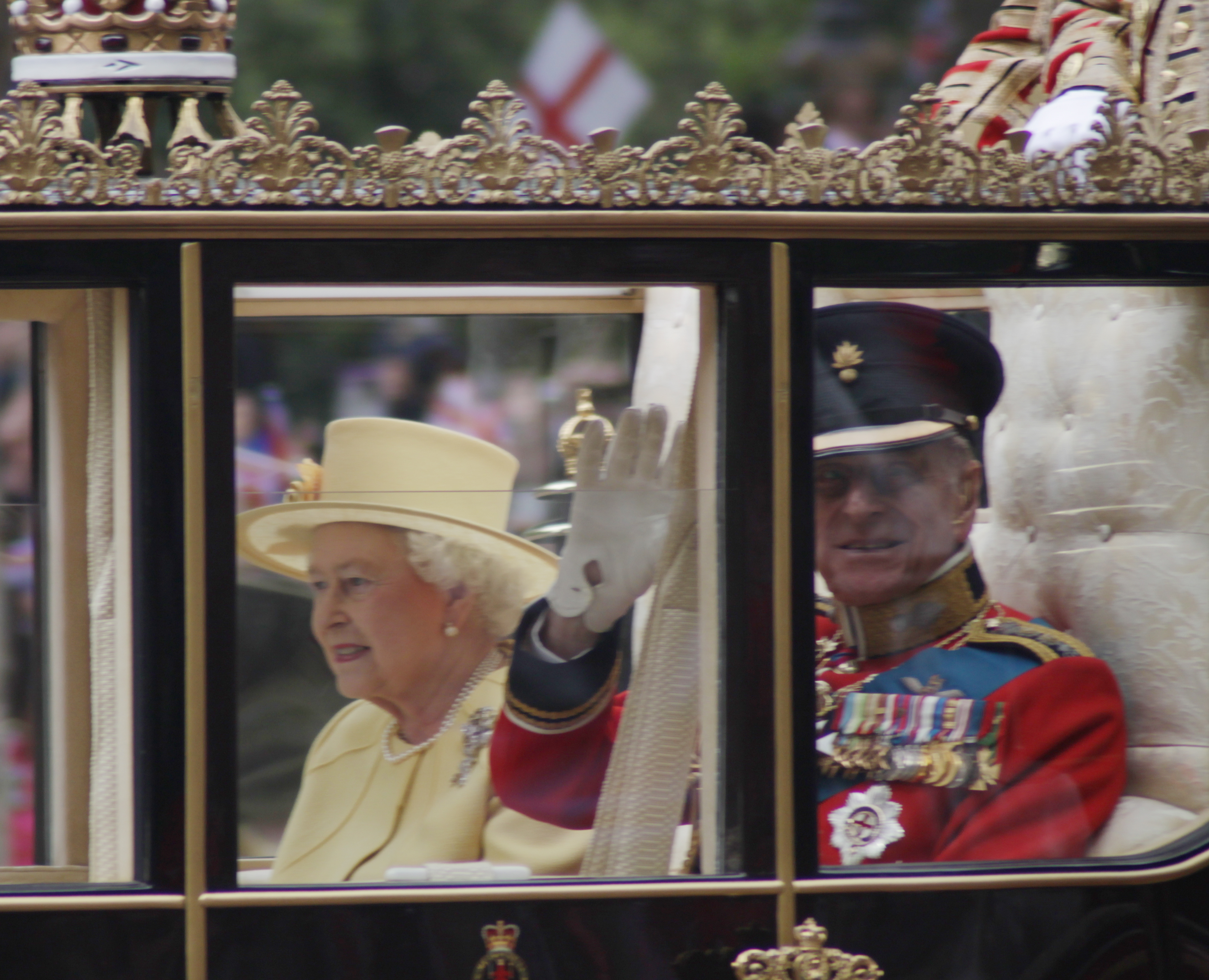 Wedding of Prince William of Wales and Kate Middleton